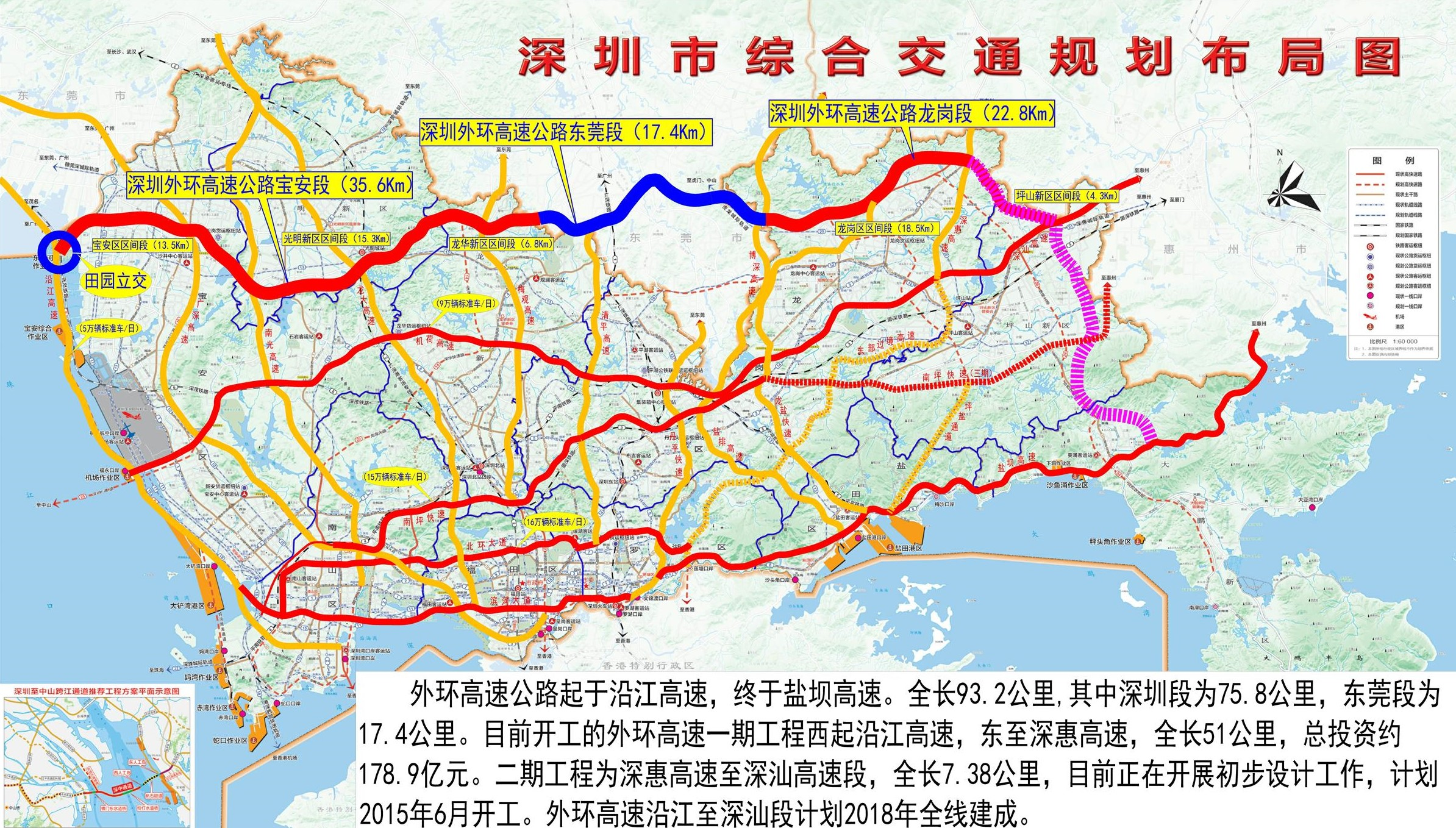 Planning Map of Shenzhen Outer Ring Expressway